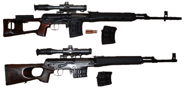 edit of Image:Dragunovs_rt.jpg